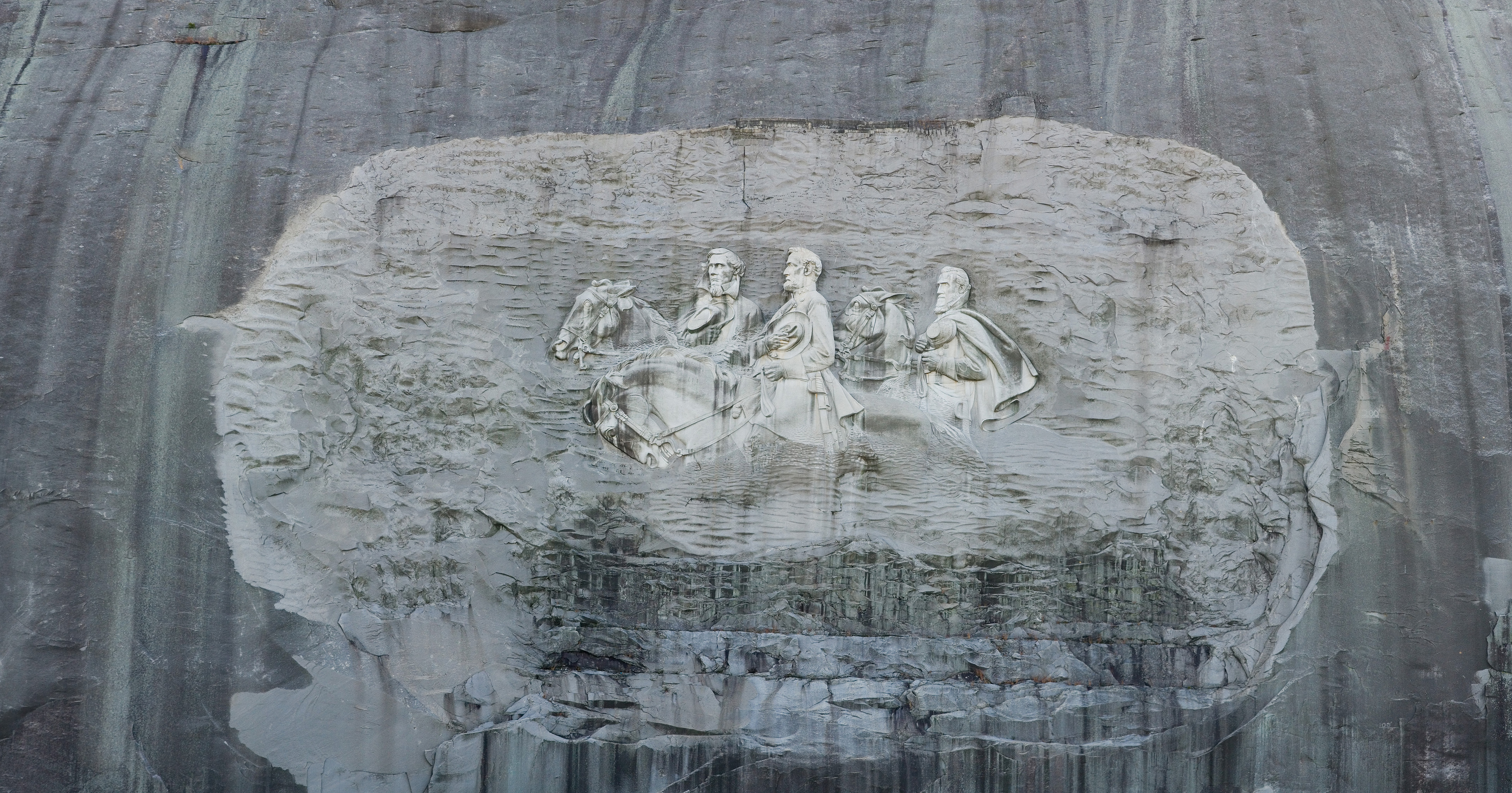 A mosaic stitched image of Stone Mountain, Georgia, United States. Taken with a Canon 5D and 70-200mm f/2.8L at 200mm.